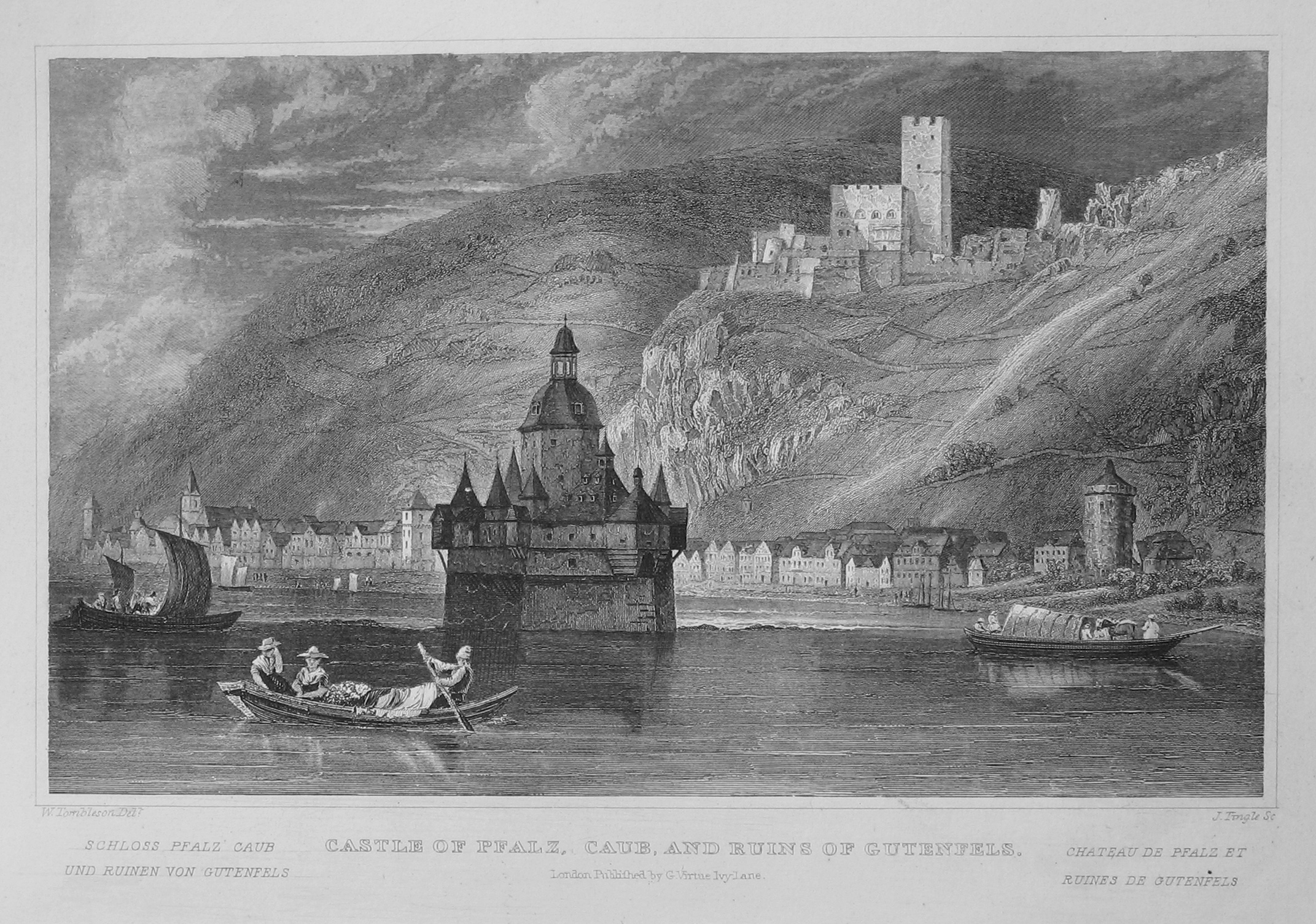 Steel engraving from "Views of the Rhine" by William Tombleson (around 1840): Castle Pfalzgrafenstein, located in the middle of the Rhine, and Castle Gutenfels above the village of Kaub on the oppoite bank